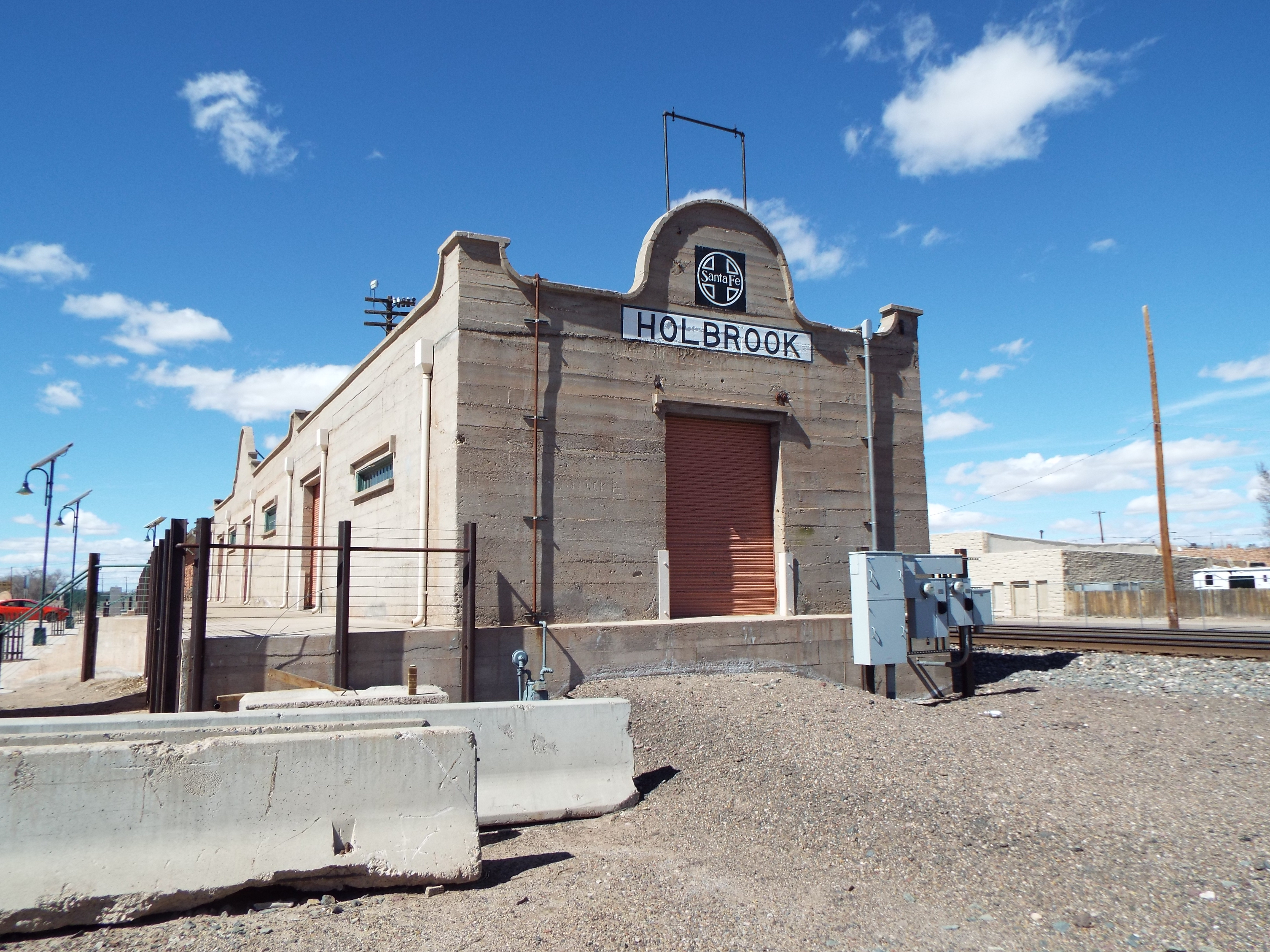 Santa Fe Train Depot 1907 in Holbrook, AZ